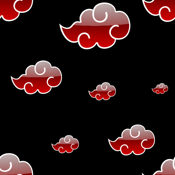 Akatsuki clouds shiny tiles texture, png format